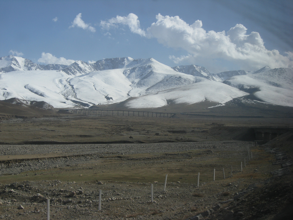 We were going through this mountain range for about six hours. Occasionally, we'd see very small towns (just a collection of a few houses), some vegetable fields and/or shepherds with their flock. But mainly it was just a lot of desert and mountain and not much else.